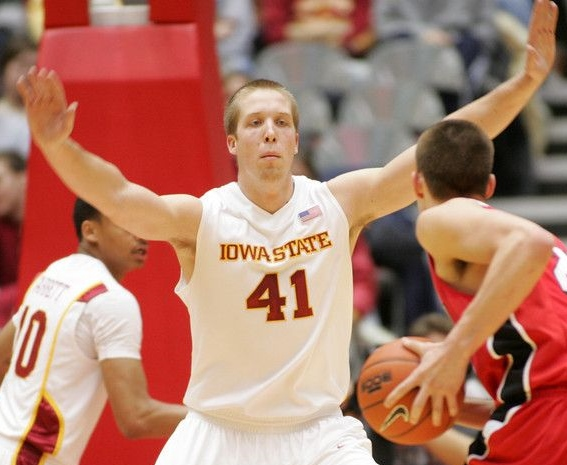 Justin Hamilton of Iowa State University in a basketball game vs. Bradley University.